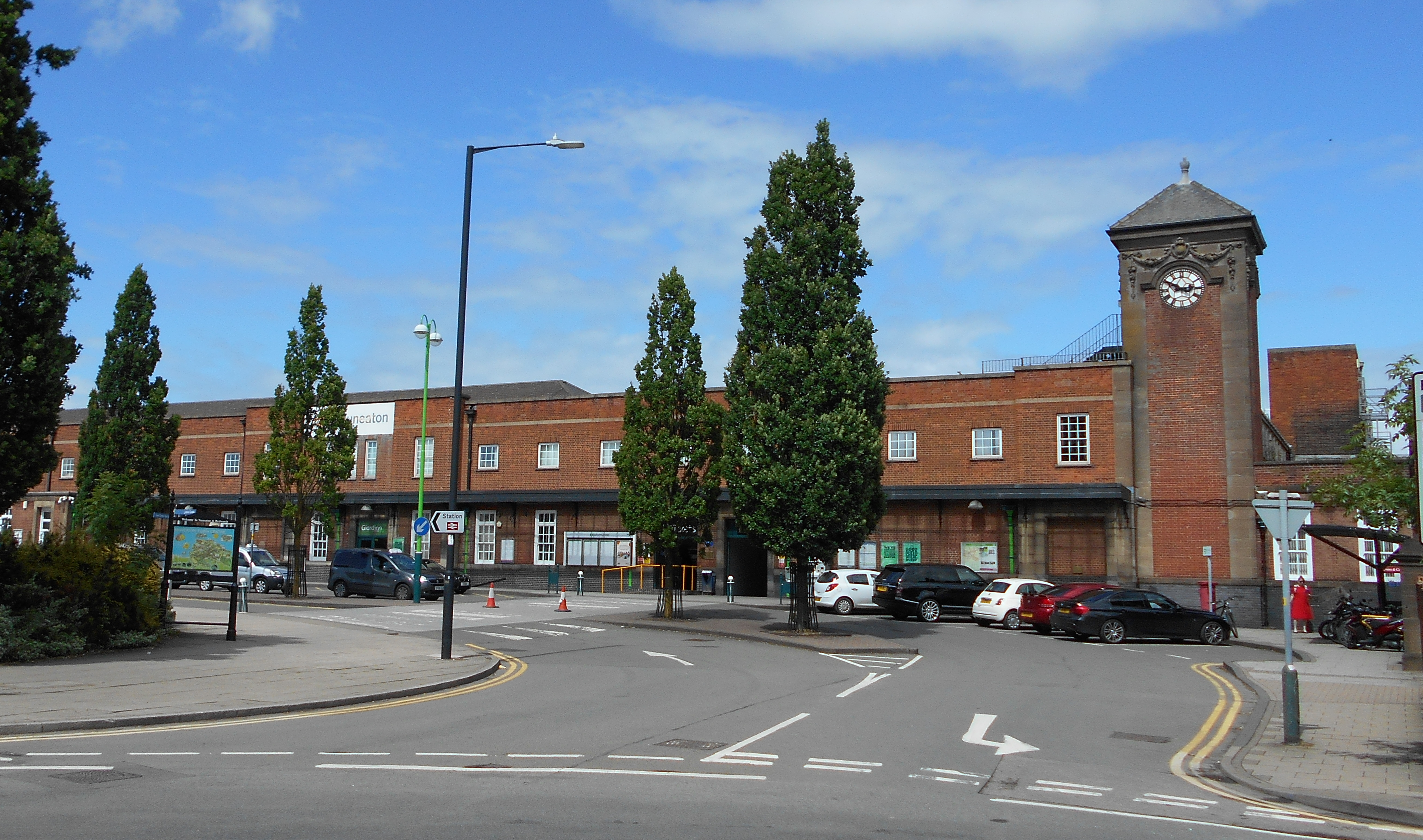 Nuneaton railway station exterior